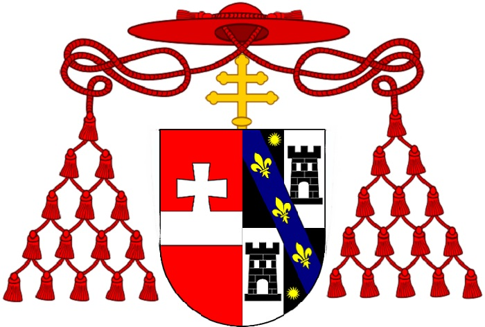 Coat of arms of Cardinal Cristoforo Migazzi, Archbishop of Vienna (1757-1803).